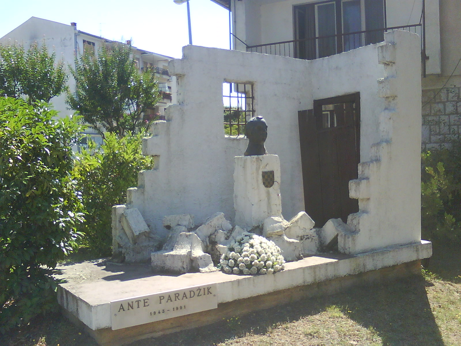 Monument in a tribute of Ante Paradžik, city of Ljubuški